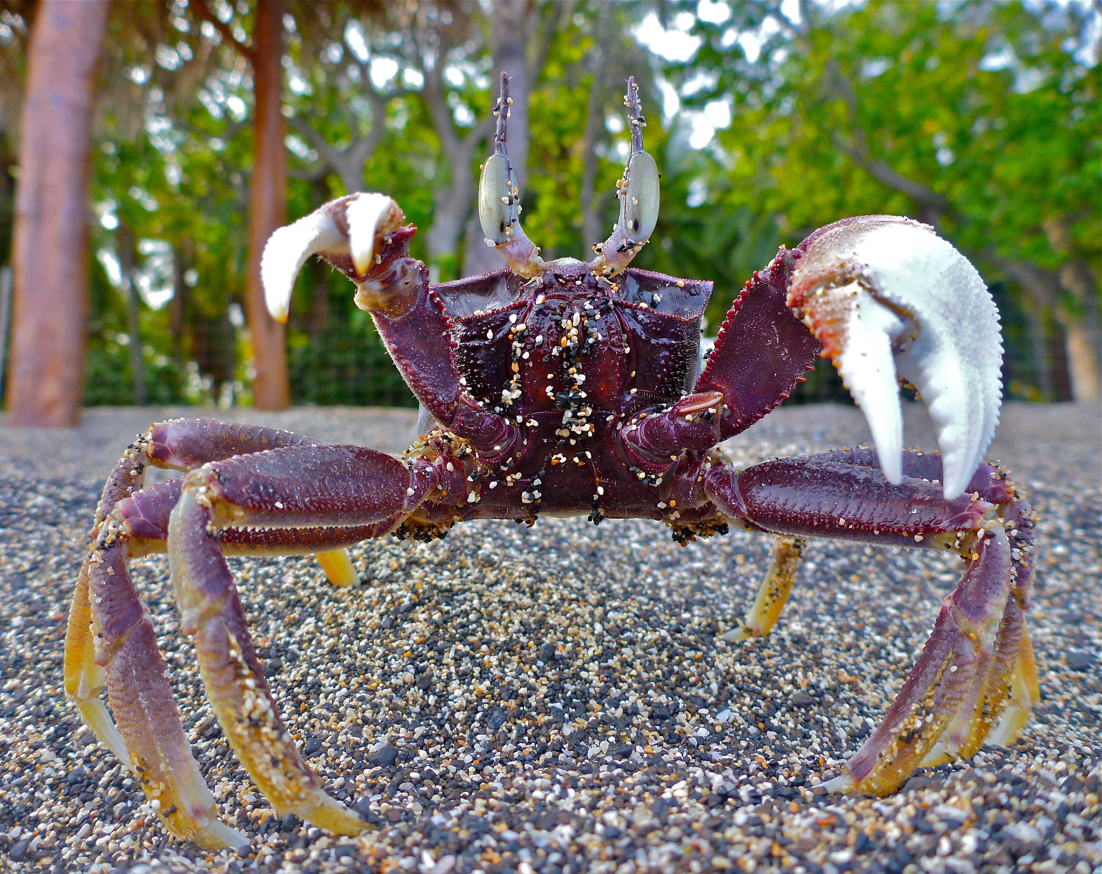 Horned Ghost Crab (Ocypode ceratophthalmus) on the beach at Kona Village, North Kona district, Hawaii island.